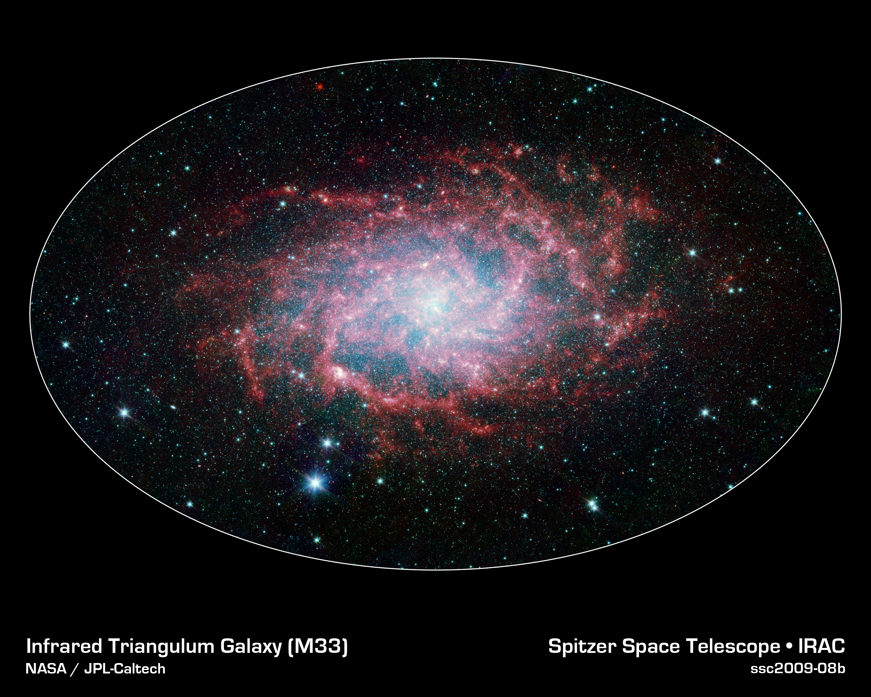 One of our closest galactic neighbors shows its awesome beauty in this new image from NASA's Spitzer Space Telescope. M33, also known as the Triangulum Galaxy, is a member of what's known as our Local Group of galaxies. Along with our own Milky Way, this group travels together in the universe, as they are gravitationally bound. In fact, M33 is one of the few galaxies that is moving toward the Milky Way despite the fact that space itself is expanding, causing most galaxies in the universe to grow farther and farther apart. When viewed with Spitzer's infrared eyes, this elegant spiral galaxy sparkles with color and detail. Stars appear as glistening blue gems (many of which are actually foreground stars in our own galaxy), while dust in the spiral disk of the galaxy glows pink and red. But not only is this new image beautiful, it also shows M33 to be surprising large - bigger than its visible-light appearance would suggest. With its ability to detect cold, dark dust, Spitzer can see emission from cooler material well beyond the visible range of M33's disk. Exactly how this cold material moved outward from the galaxy is still a mystery, but winds from giant stars or supernovas may be responsible. M33 is located about 2.9 million light-years away in the constellation Triangulum. This composite image was taken by Spitzer's infrared array camera. The color blue indicates infrared light of 3.6 microns, green shows 4.5-micron light, and red 8.0 microns.